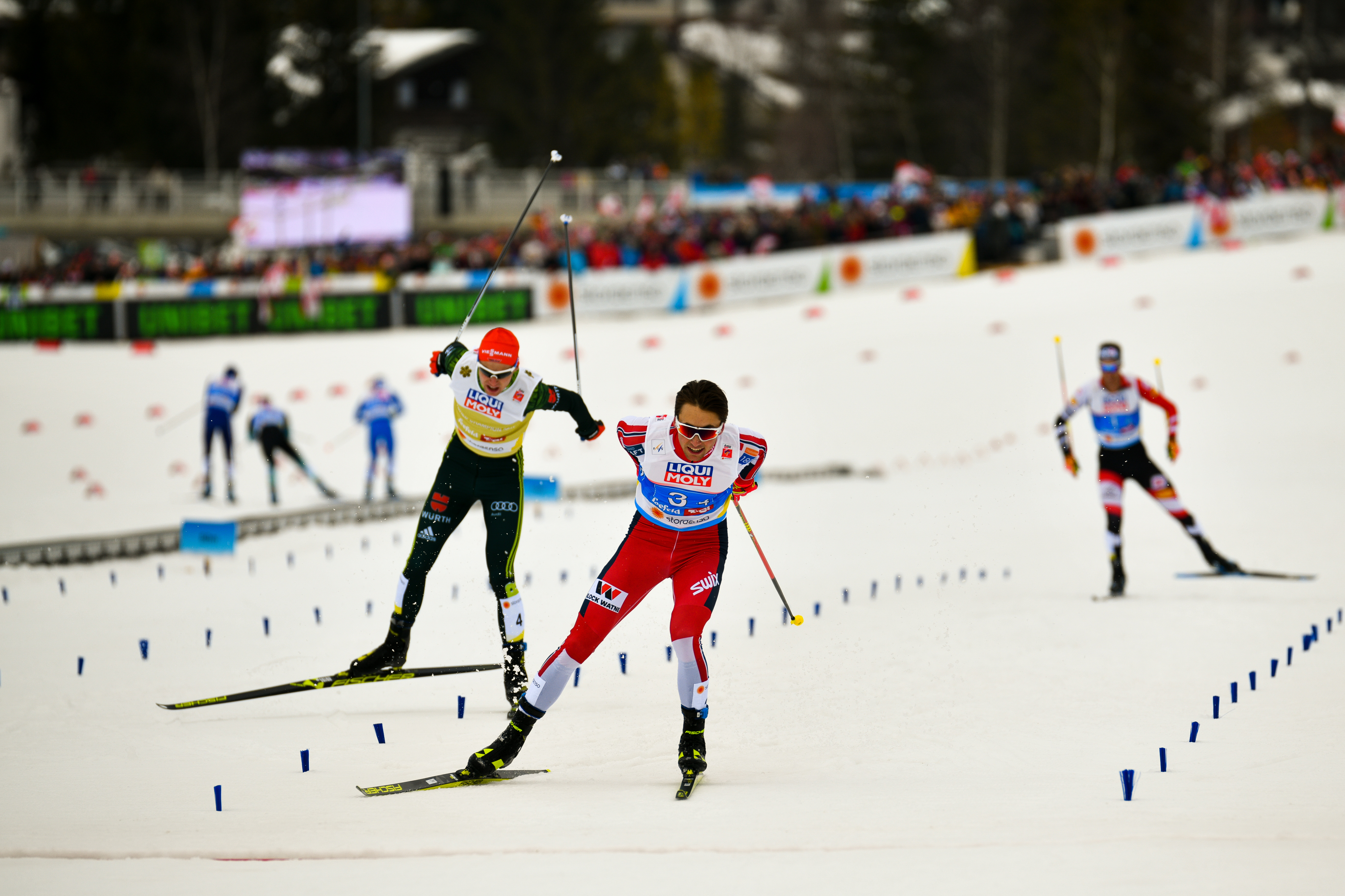 FIS Nordic World Ski Championships Seefeld 2019 - Nordic Combined Team Gundersen 4x5km. Picture shows Vinzenz Geiger (GER), Jarl Magnus Riiber (NOR), Lukas Klapfer (AUT).